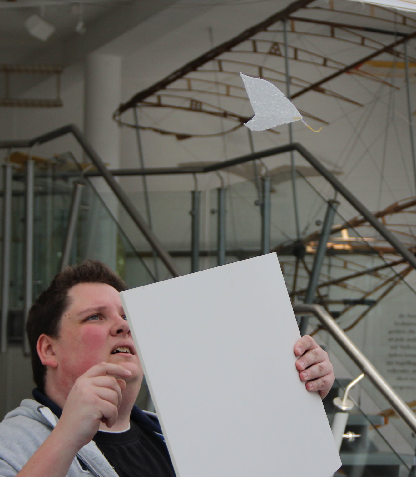 Demonstration of a walkalong glider in the exhibition of the Otto-Lilienthal-Museum